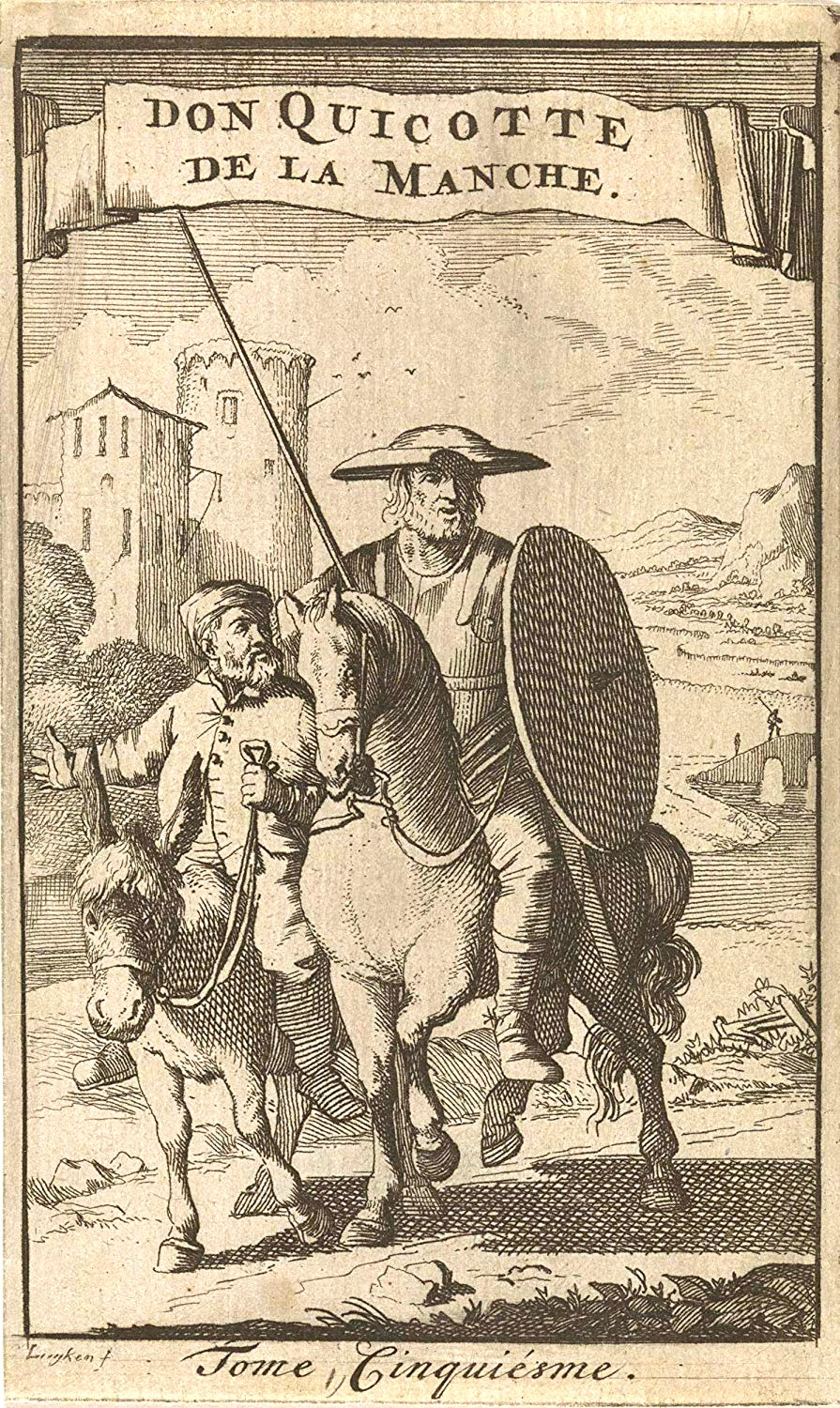 Frontispiece in "Cervantes, Histoire de l'admirable Don Quixotte de La Manche" (5 volume) by Caspar Luyken. 11 inches x 17 inches.